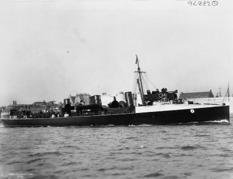 Royal Navy Star class torpedo boat destroyer HMS Flying Fish